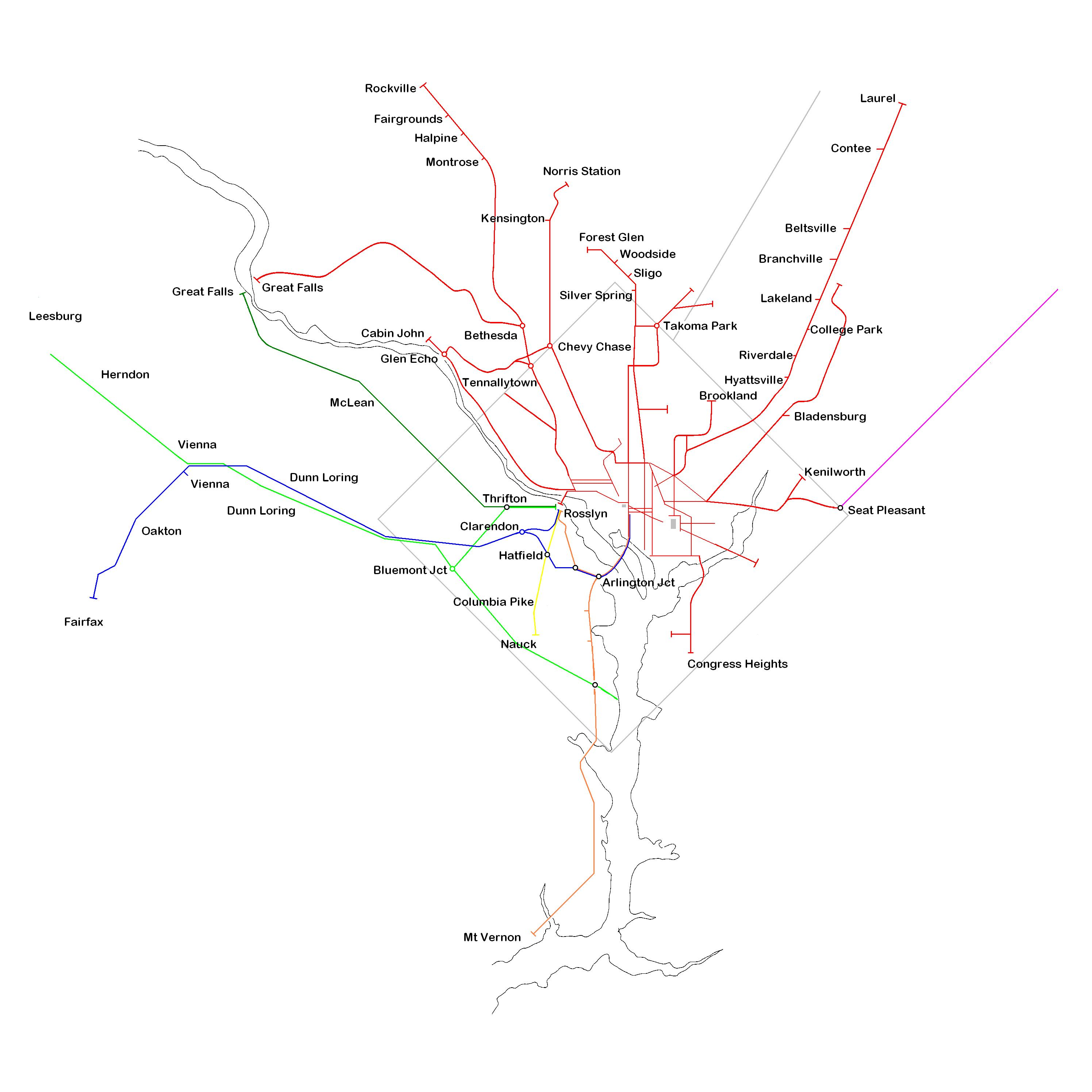 Drawing by SDC